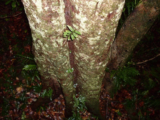 Diospyros pentamera at Budderoo_National_Park, by track at Minnamurra Falls